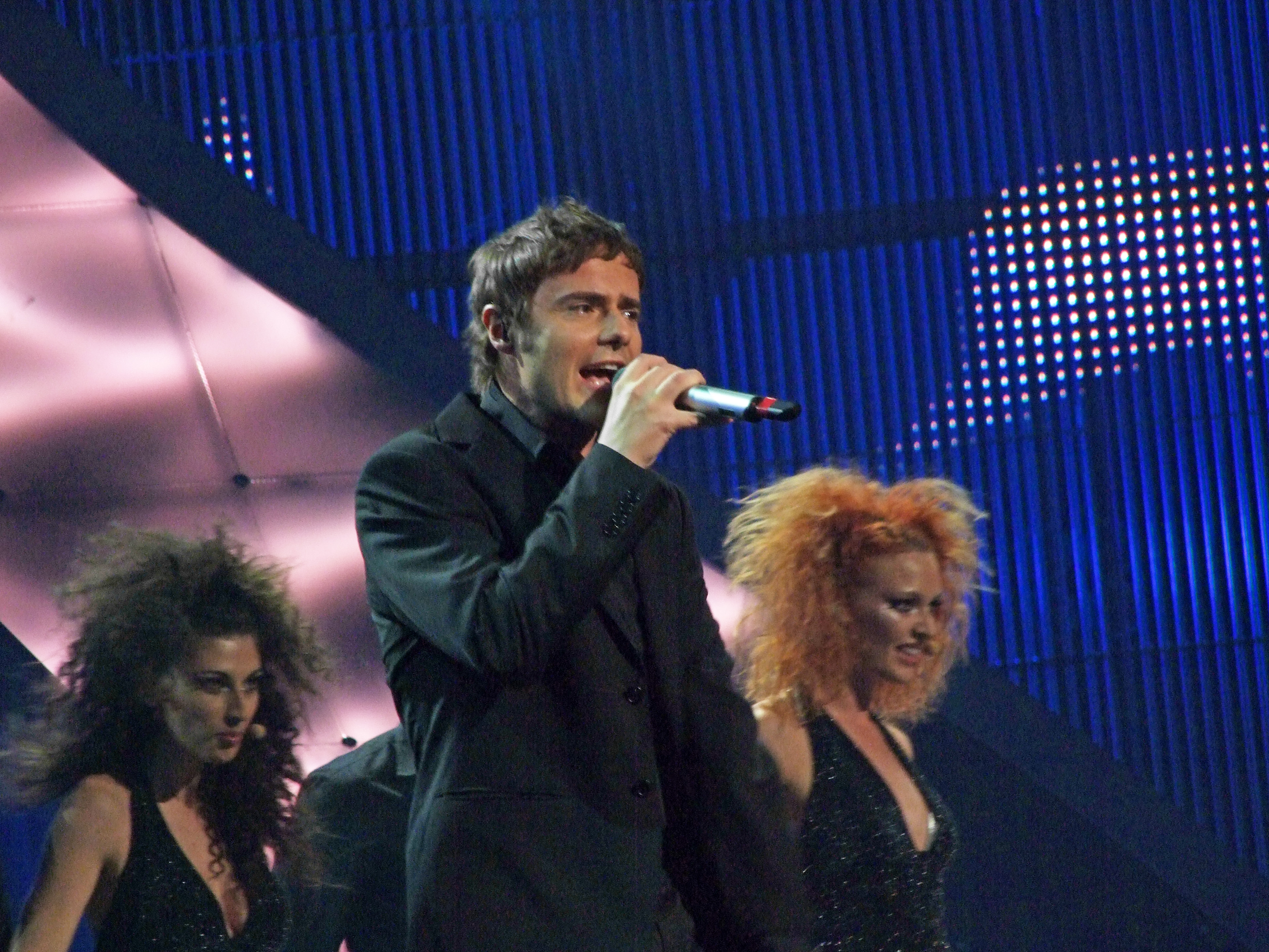 Paolo Meneguzzi (Switzerland) in the 2nd semi-final at the Eurovision Song Contest in Belgrade